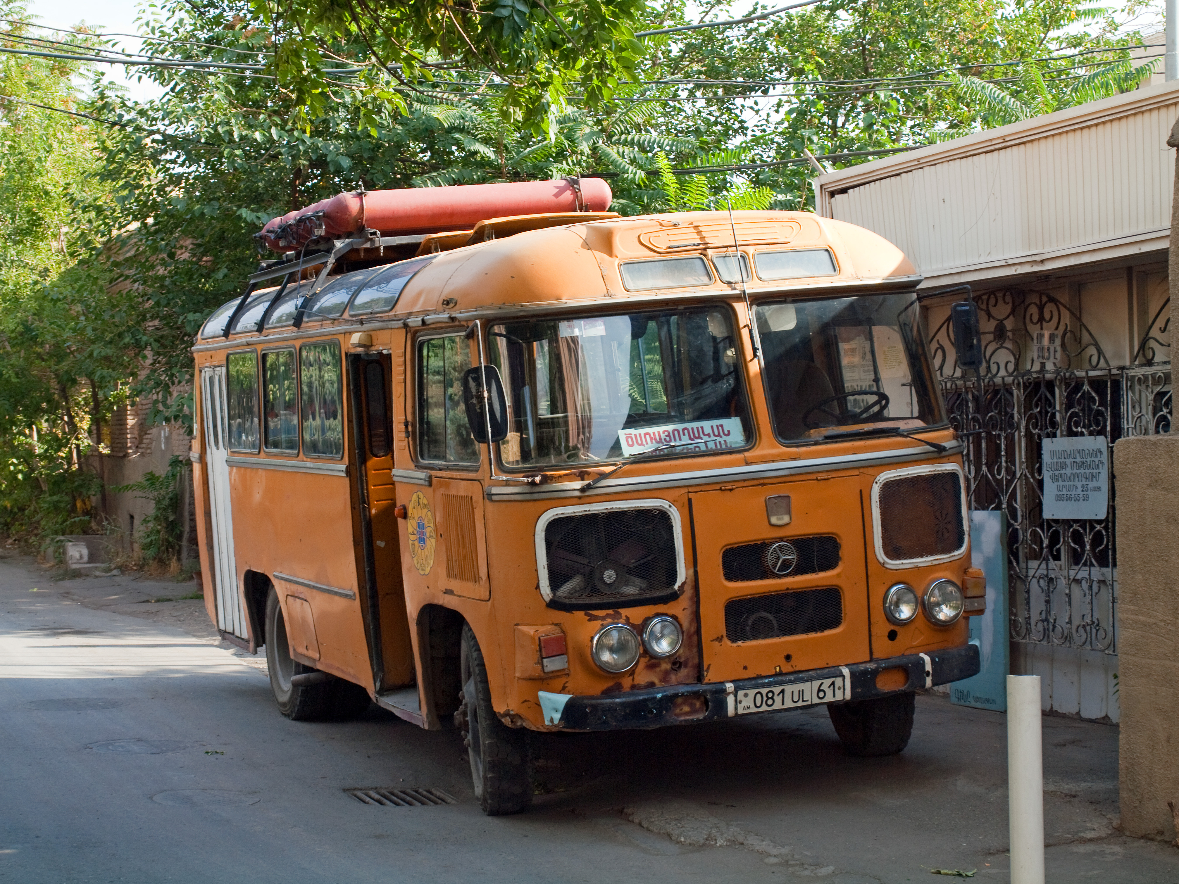 These small buses are a regualr sight on the streets. LPG tanks are on the roof.